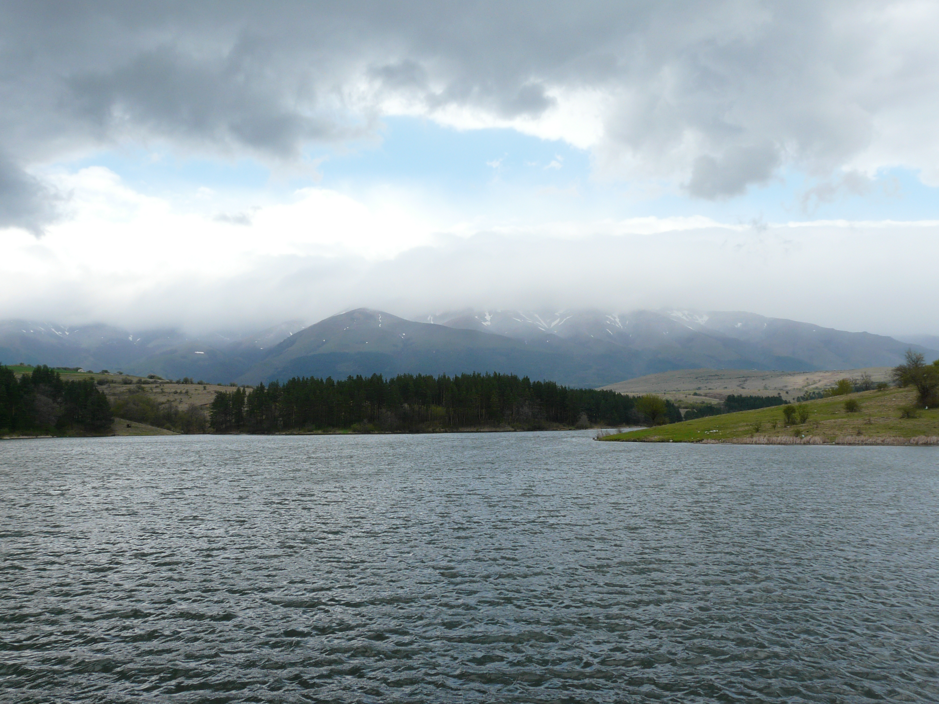 Dushantsi dam